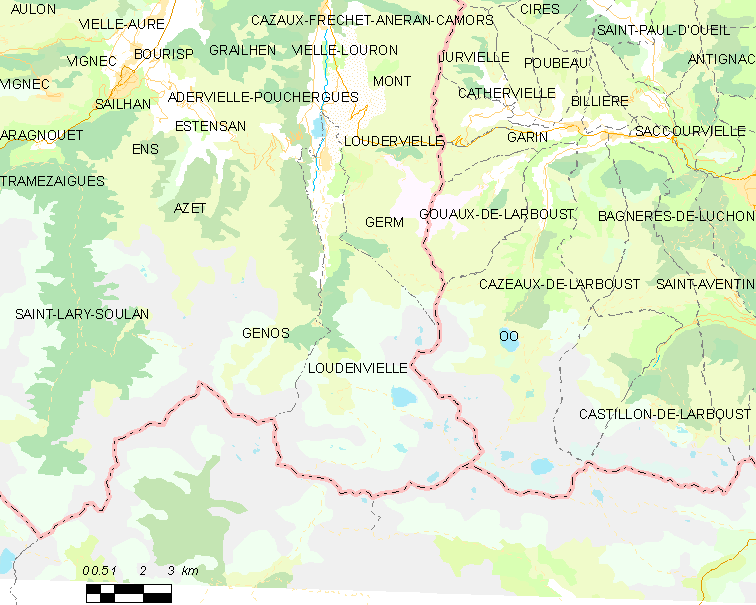 Map of French municipality